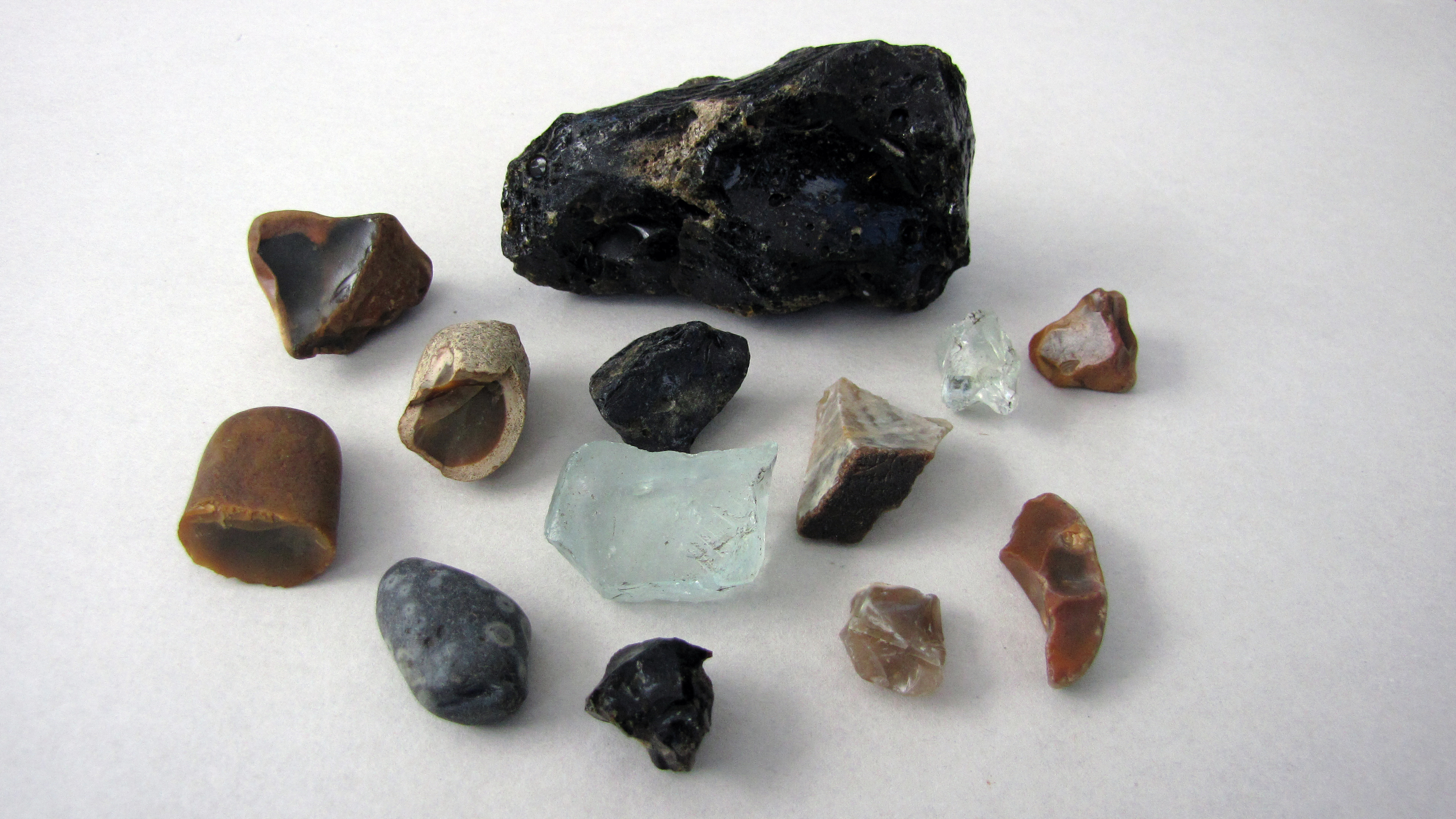 Glass and ballast stones from glass factory shore, Ristiniemi, Hamina, Finland.